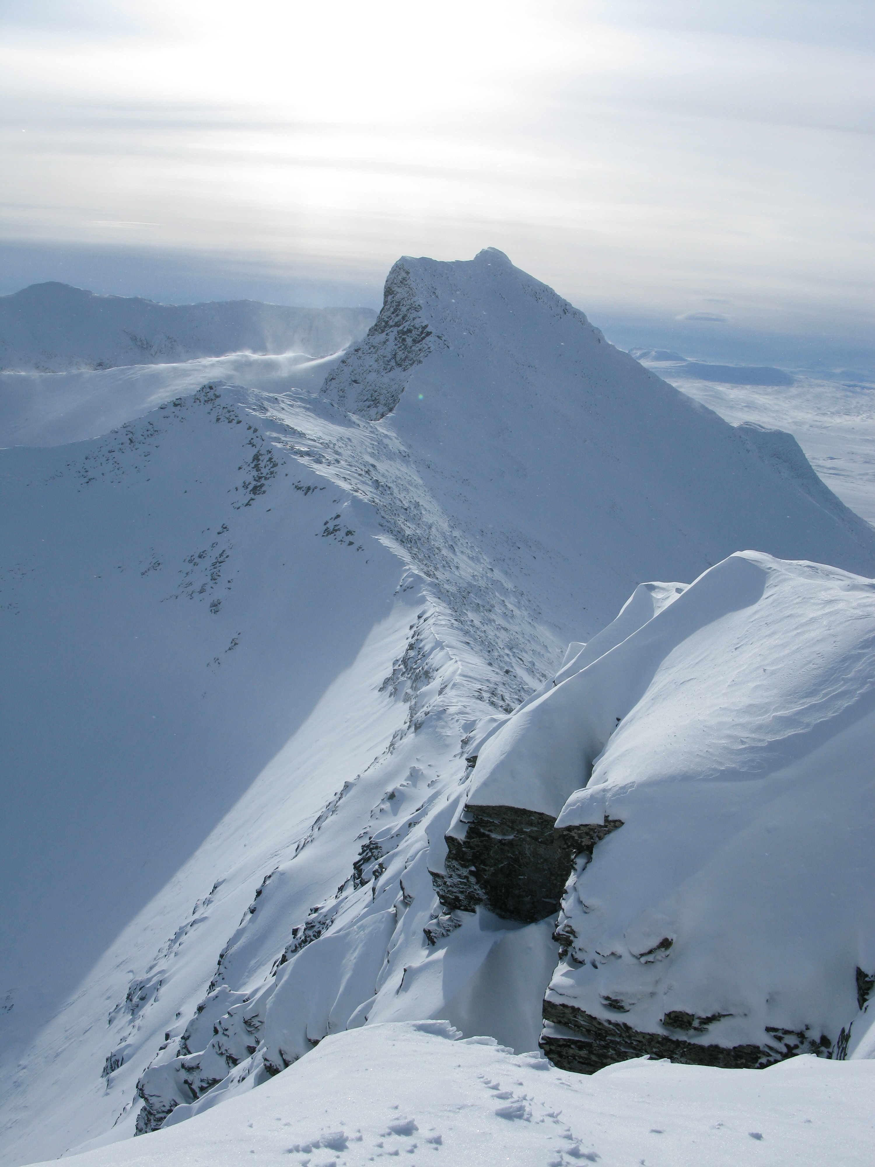 Storsylen mountain in Sylarna.